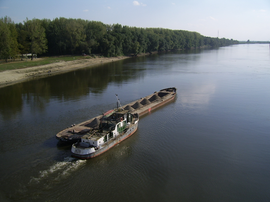 Hungarian river tug "Bolygo" with barge near Szeged on the Tisza River